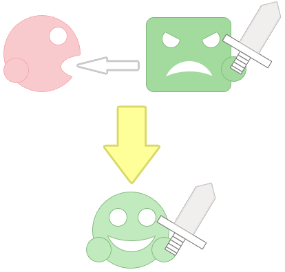 Picture describing some of the gameplay of Kirby videogame series. First row shows Kirby (depicted as a pink circle) sucking an enemy (green square) with a sword. Second row shows Kirby who has obtained the sword ability from the enemy.